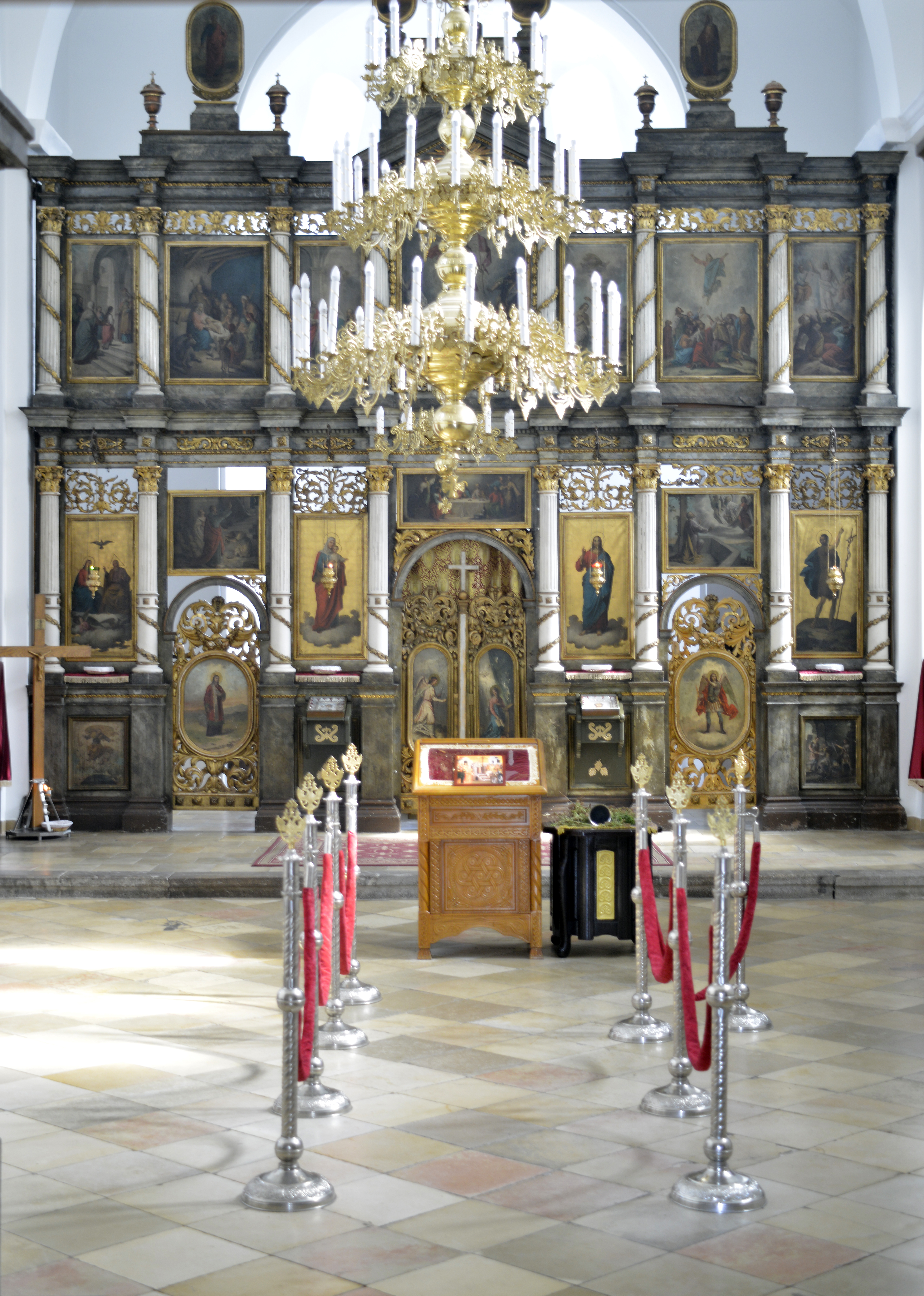 Grocka, Holy Trinity Church